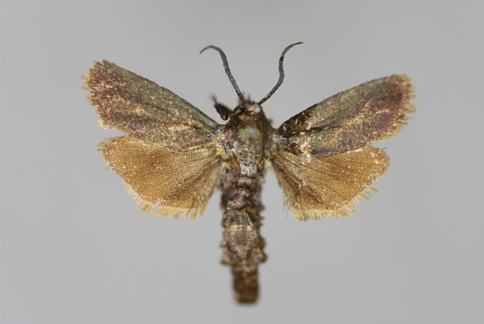 Brachodes appendiculata, Weibchen